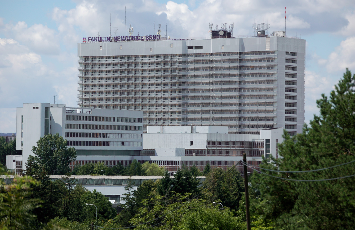 The Center for Adult Medicine in Brno-Bohunice